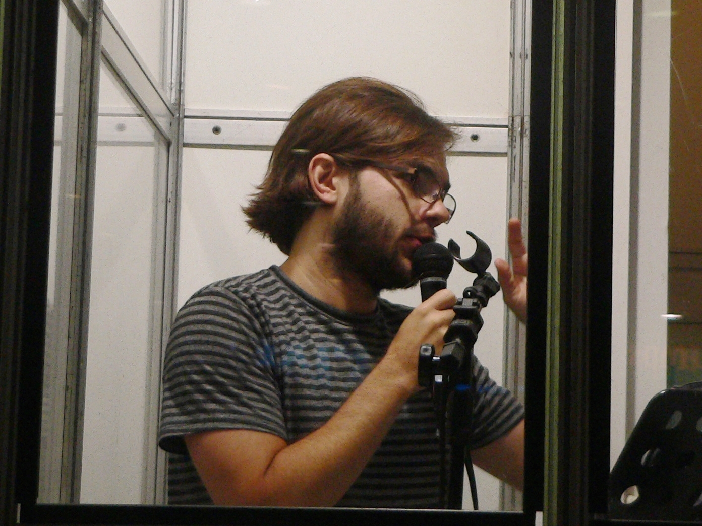 Brazilian voice actor Fábio Lucindo at the 2014 Comic Con Experience in São Paulo, Brasil.